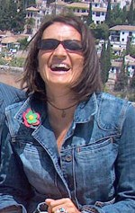 Spanish actress Silvia Abril